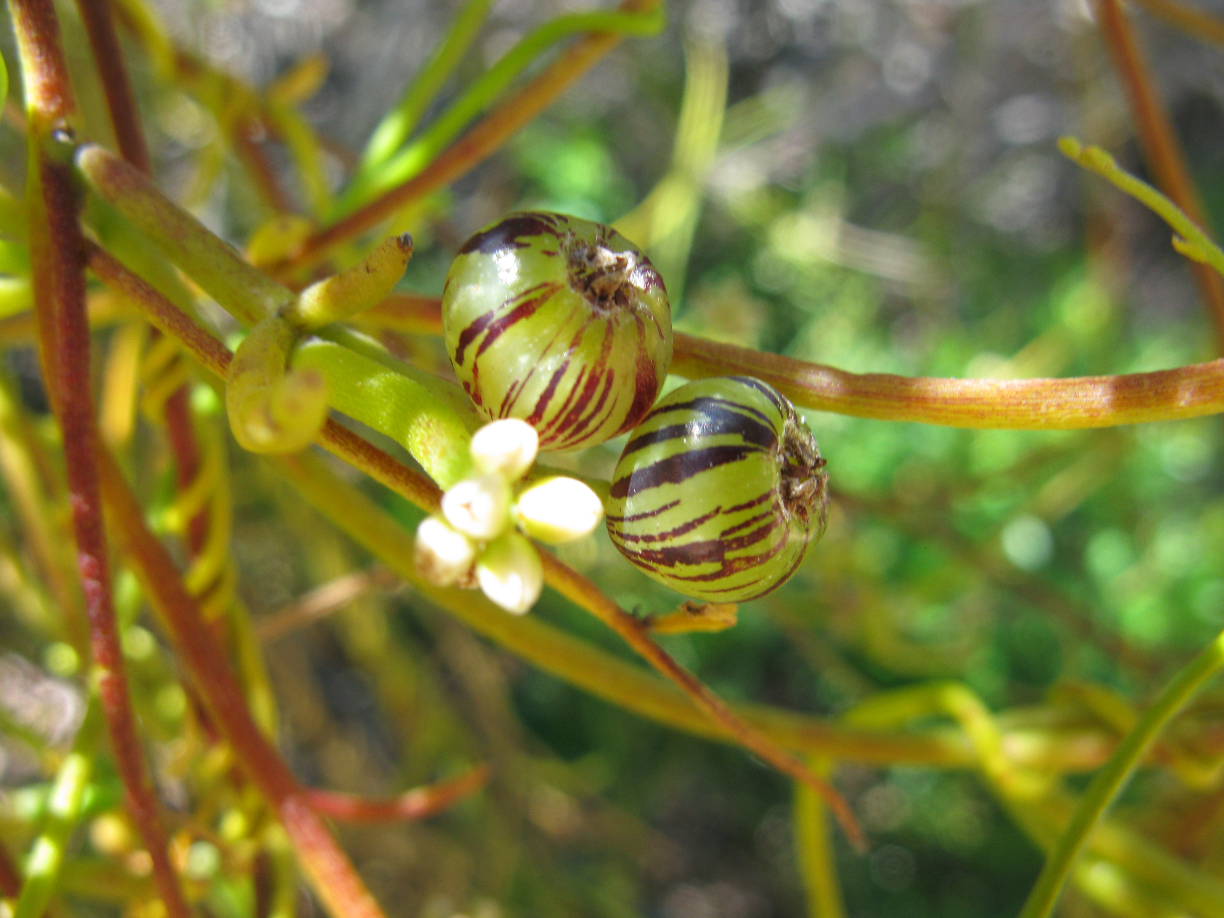 Cassytha melantha (Coarse dodder-laurel) at Cape Le Grand National Park (Esperance, Western Australia), October 2010.